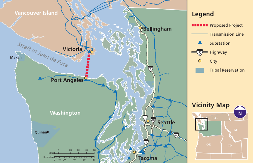 Juan de Fuca HVDC project map, color, published by Bonneville Power Administration